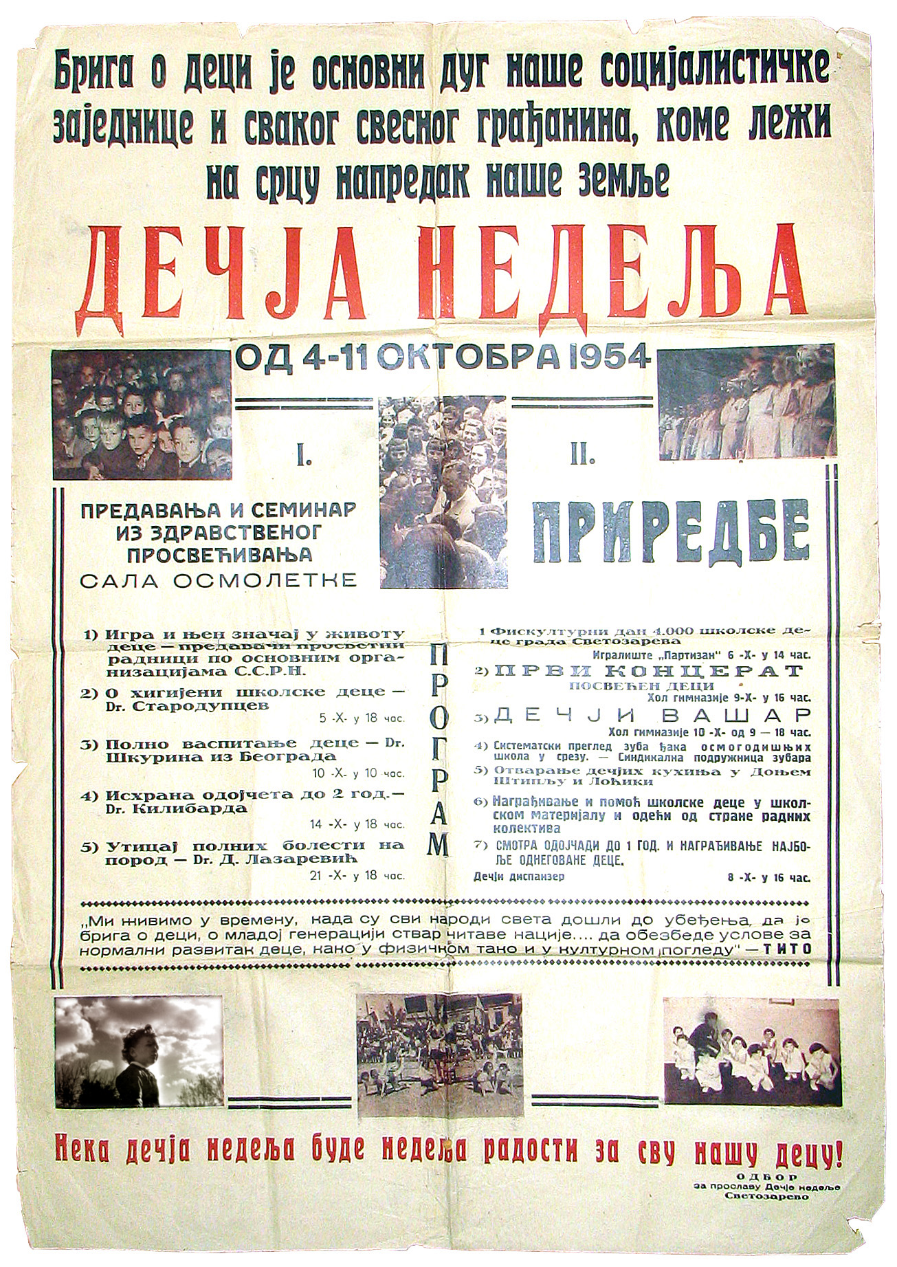 Children's week in Serbia 4-11 October 1954